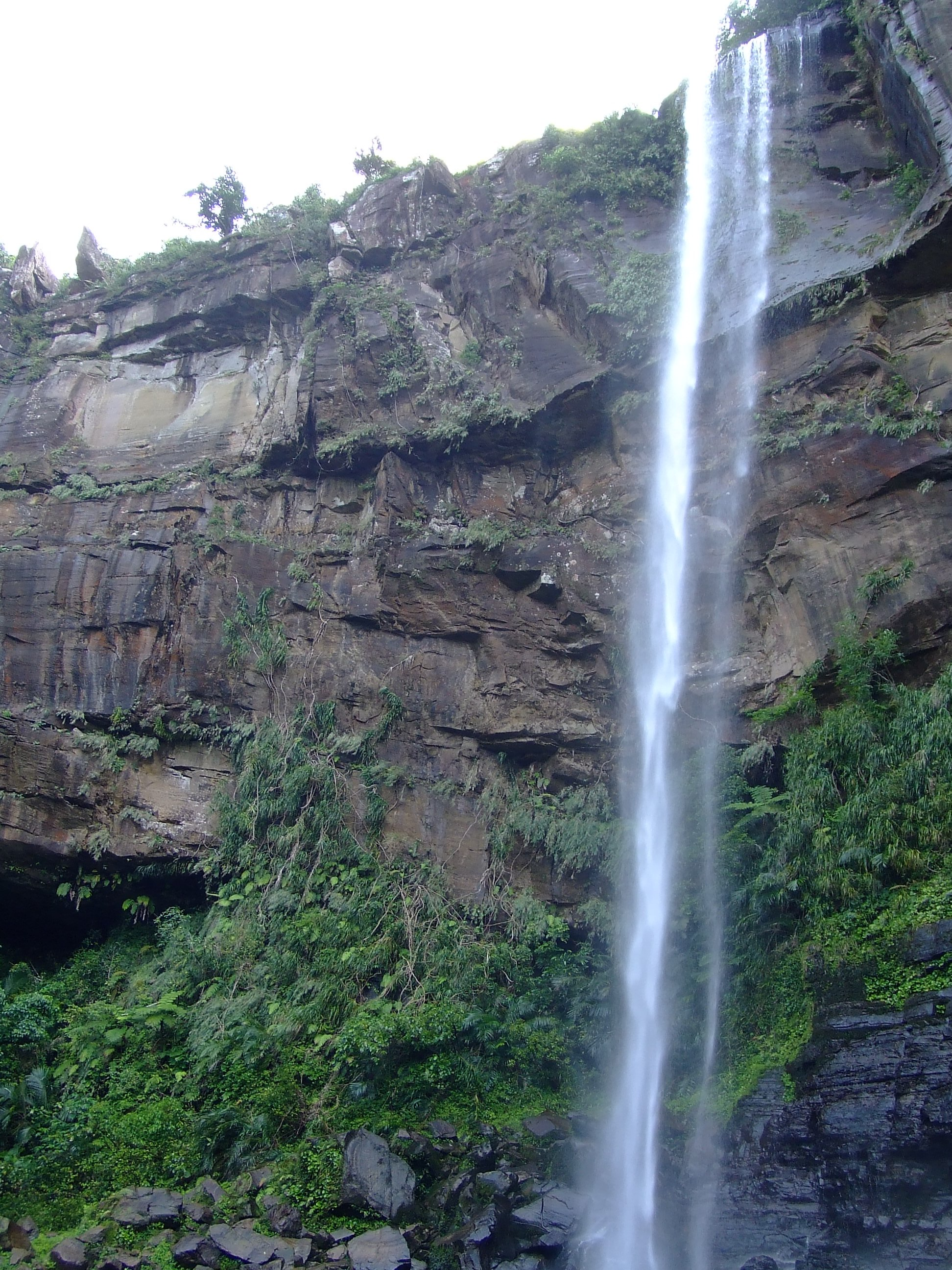 The Pinaisara waterfall, Iriomote, Okinawa. I took this photo with a digital camera on 5th April 2007.